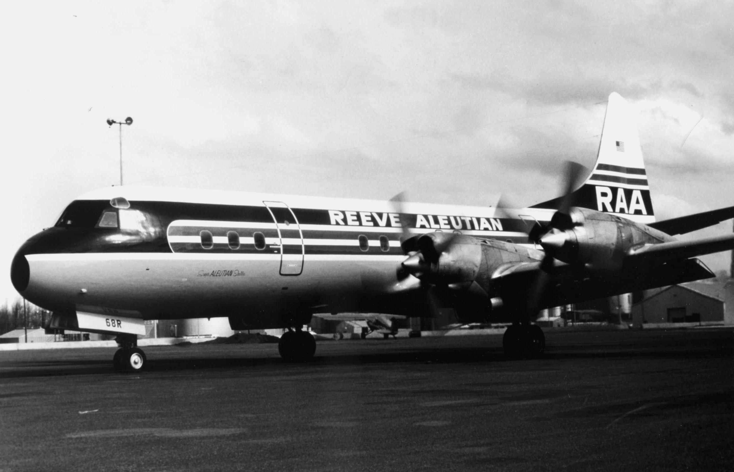 United States, Alaska. Reeve Aleutian Airways Lockheed L-188C Electra N1968R c/n 2007 delivered on November 25, 1959 to Qantas as VH-ECC "Endeavour". Sold to Air New Zealand on December 1966 as ZK-CLX Akaron. Sold to Reeve Aleutian Airways on February 17, 1968. Withdrawn from use in October 1984. Sold to Air Spray 1967 Ltd in June 2001 and registered C-GHZI.